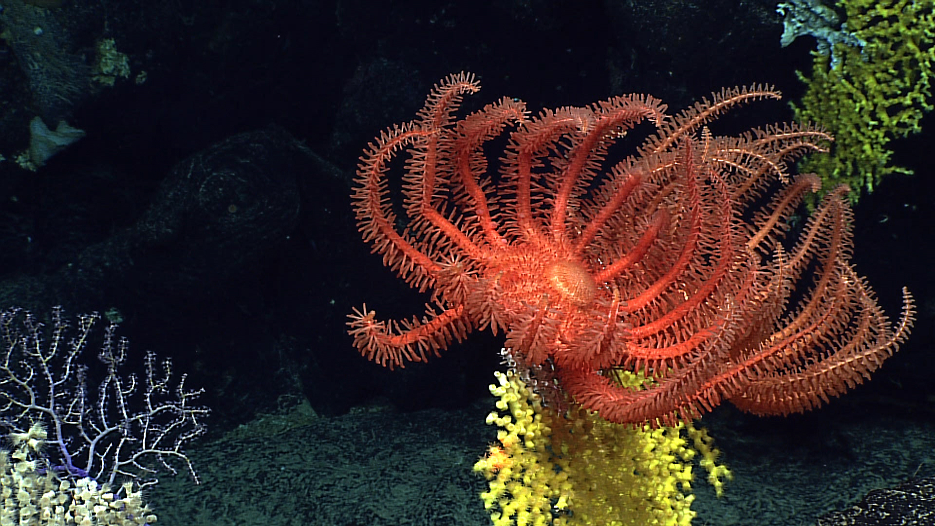 The brisingid starfish Novodinia pacifica. Image ID: expn5700, Voyage To Inner Space - Exploring the Seas With NOAA Collect Location: Hawaii, Niihau Photo Date: 20150913T202145Z Credit: NOAA Office of Ocean Exploration and Research, 2015 Hohonu Moana